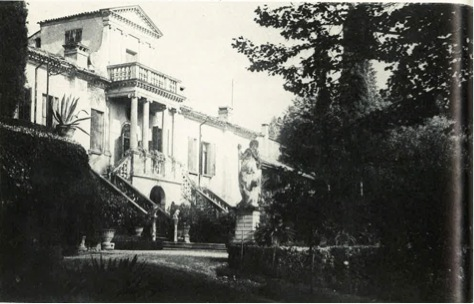 The Villa in the '30